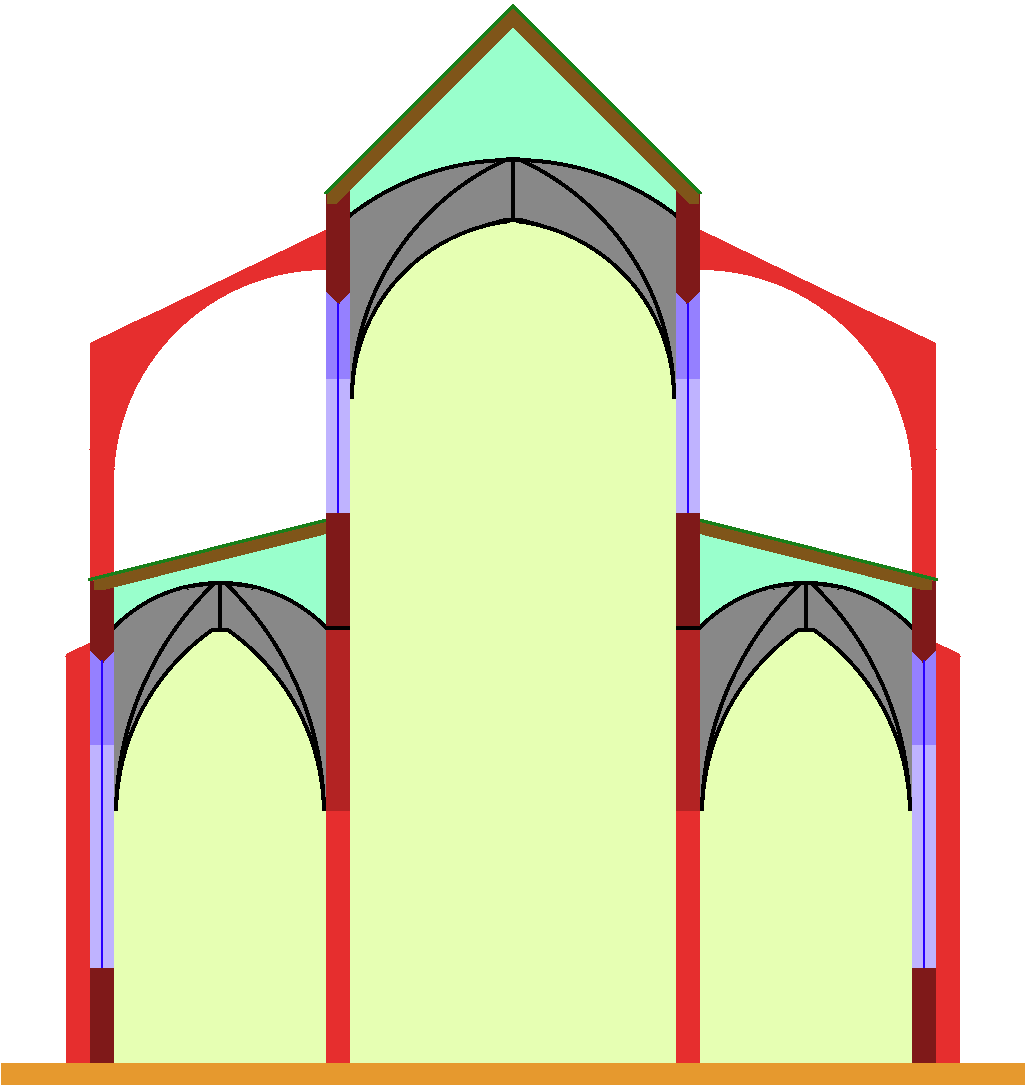 Scheme of a basilical church nave, consisting of two lateral aisles and a high central nave with windows above the aisles